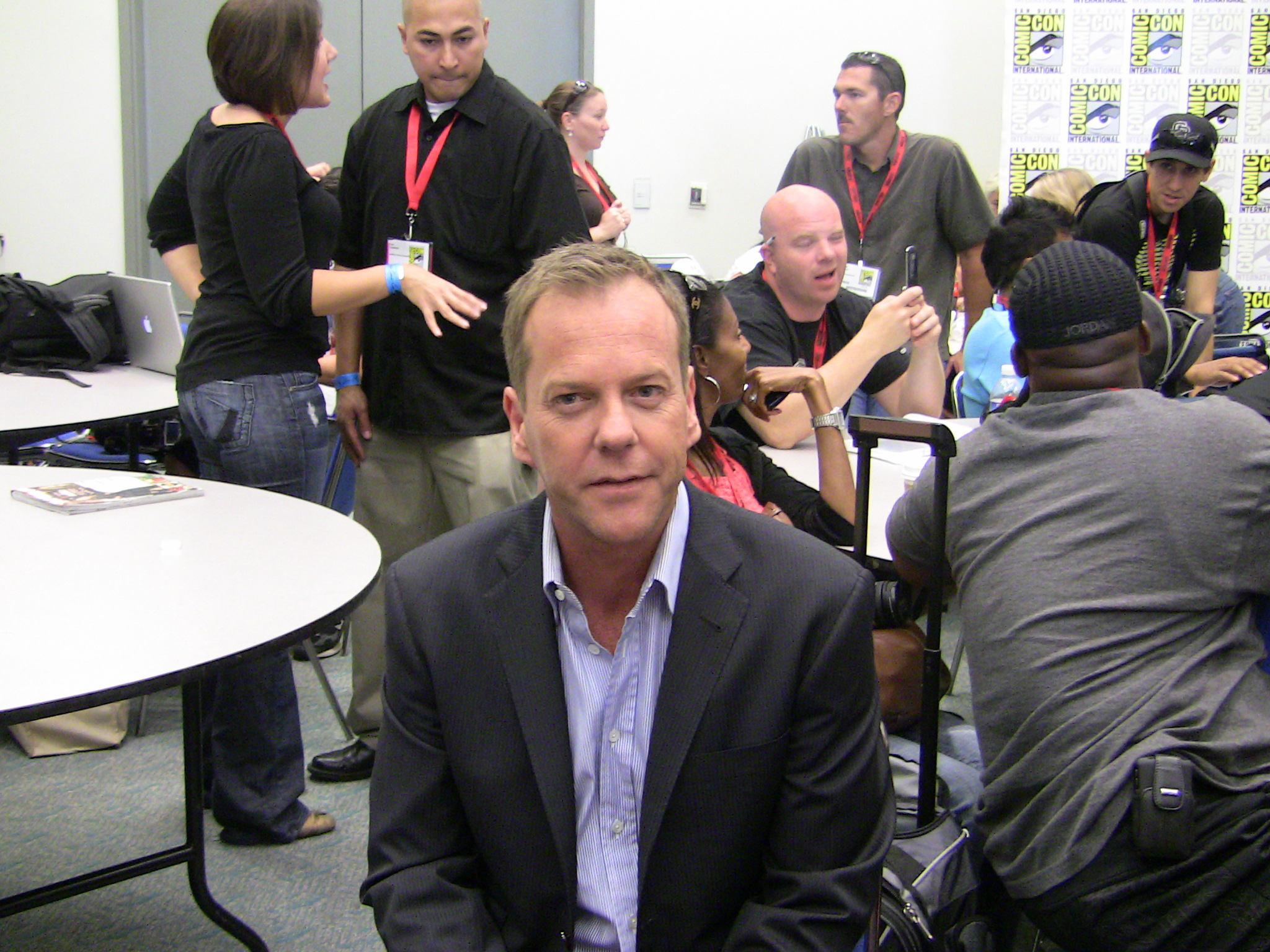 Actor Kiefer Sutherland In Comic-Con 2009 24 press room San Diego, July 24, 2009